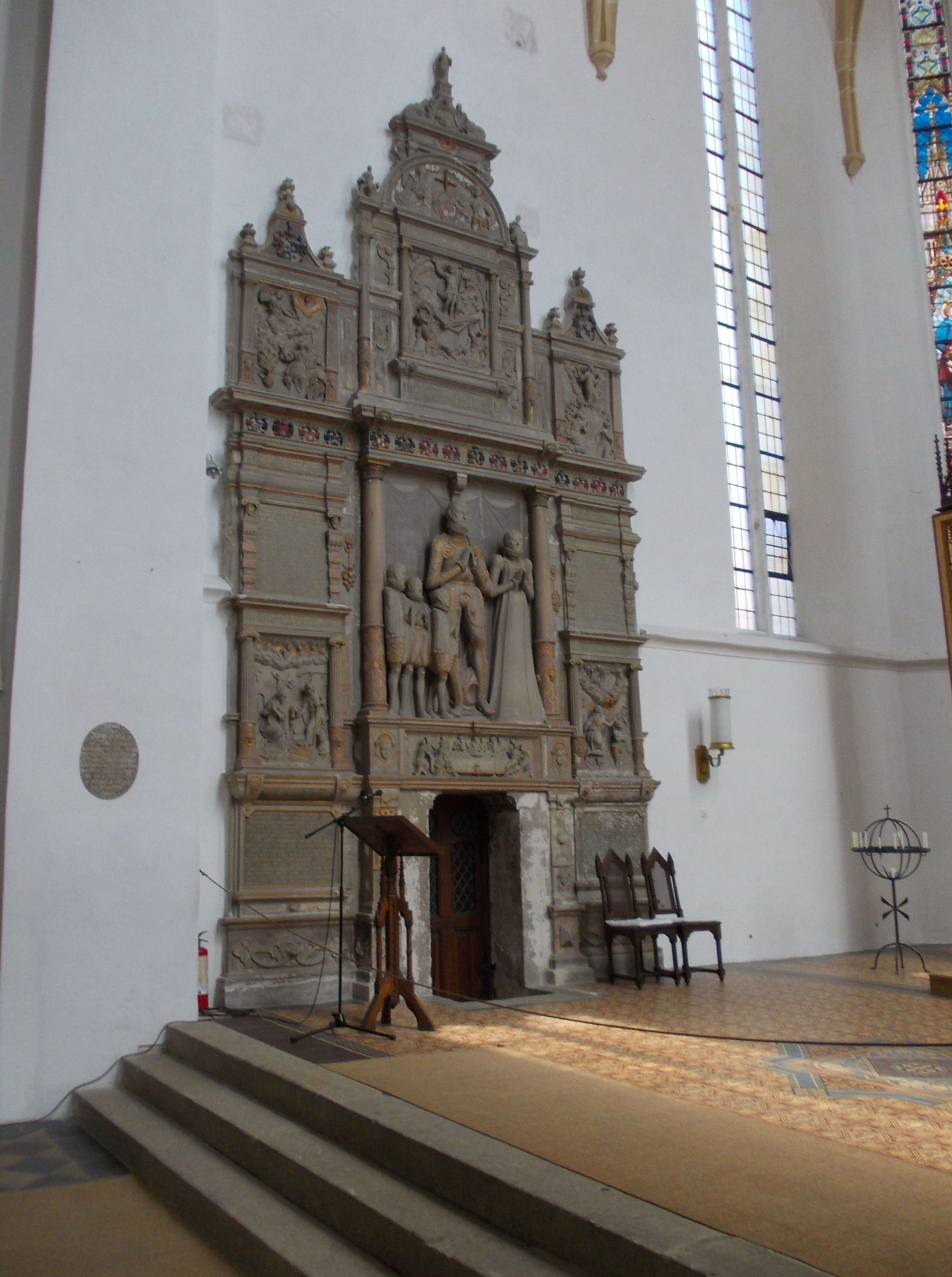 Saints Peter and Paul Church in Delitzsch (Nordsachsen district, Saxony), epitaph of Friedemann von Selmnitz